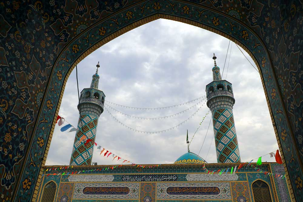 Imamzadeh's view of Yahya bin Zayd (as). Gonbad Kavous